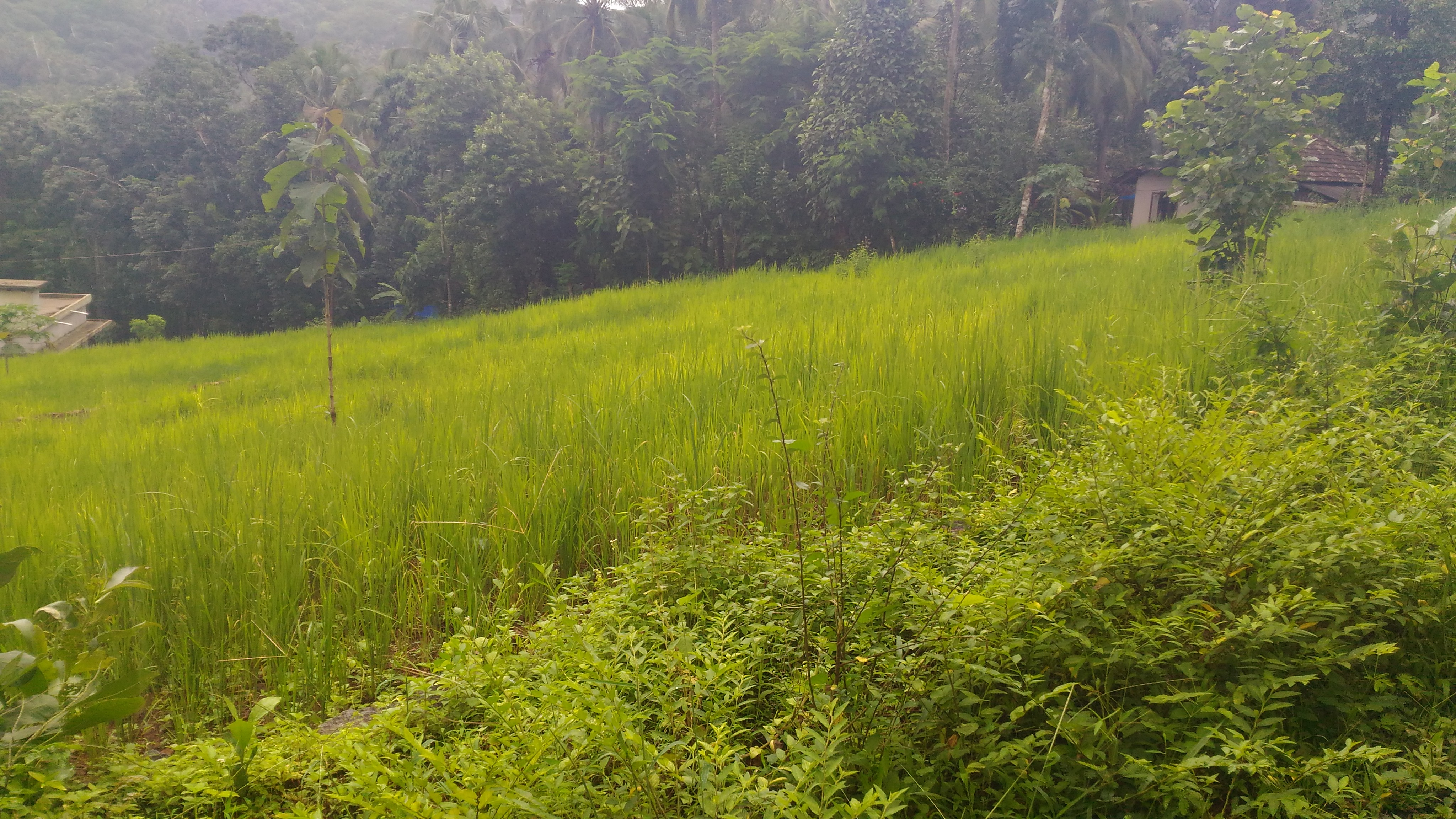 Punam krishi_Dry land Paddy field